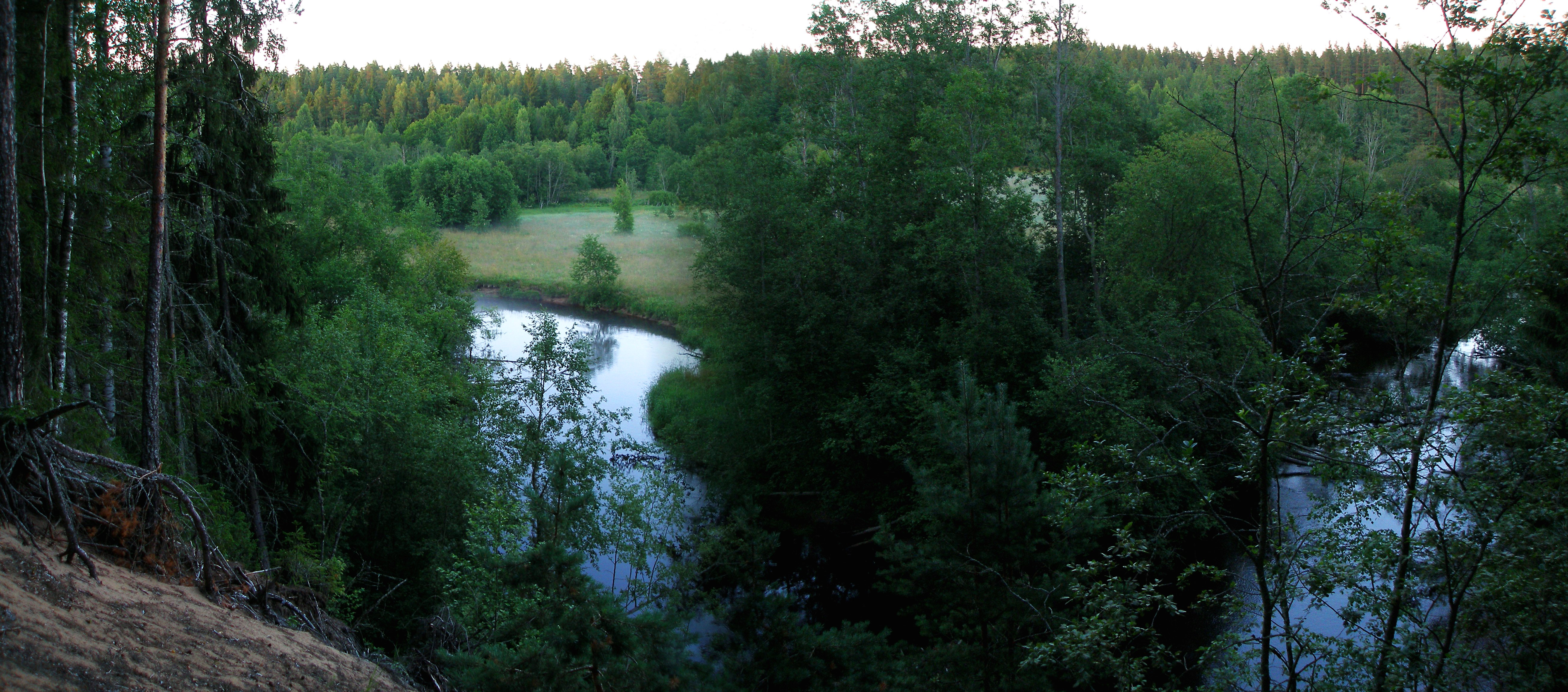 A meander on Valgejõgi near the village of Kotka, Estonia, 11 km from the river mouth in Loksa.